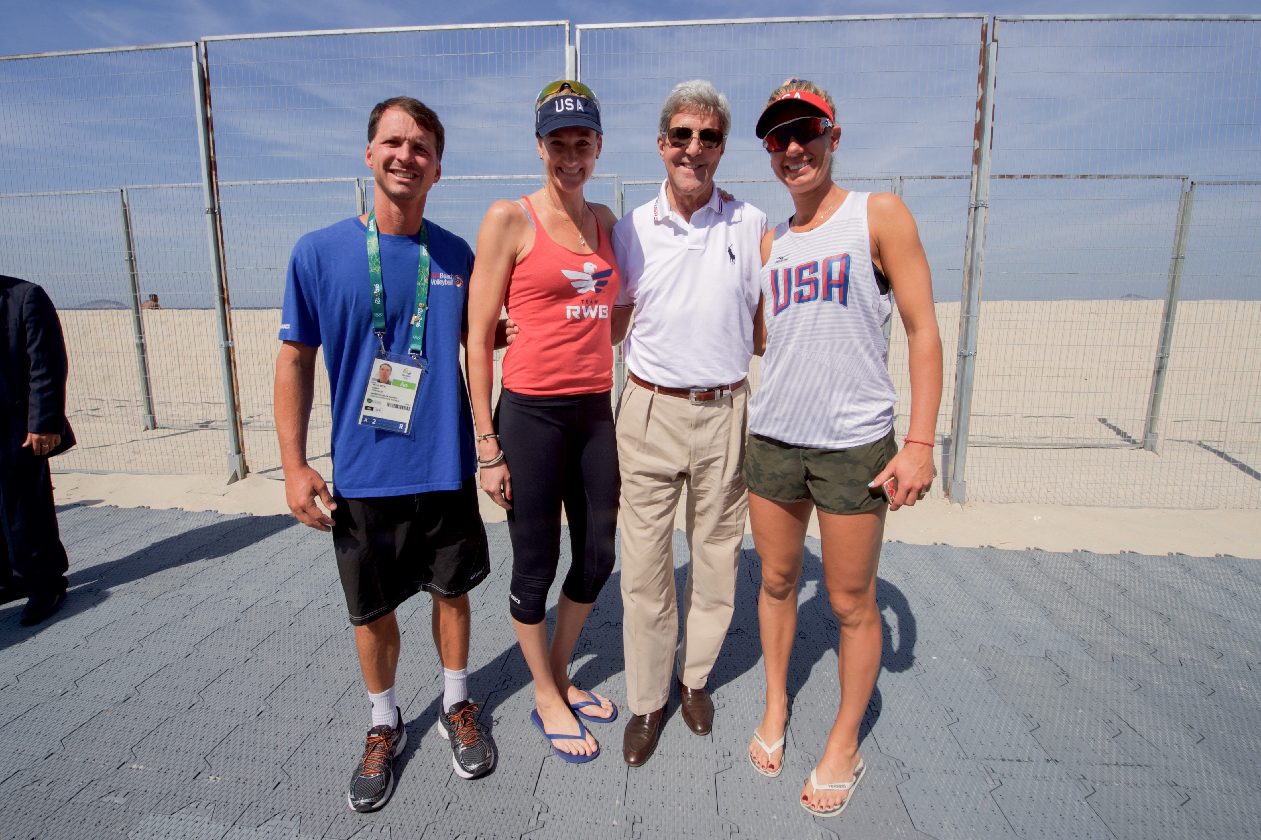 U.S. Secretary of State John Kerry poses for a photo with U.S. Olympic women's beach volleyball players Kerri Walsh and April Ross, and their coach Marcio Sicoli, on the Copacobana beach in Rio de Janiero, Brazil, on August 6, 2016, as he and his fellow members of the U.S. Presidential Delegation attend the Summer Olympics. [State Department Photo/ Public Domain]